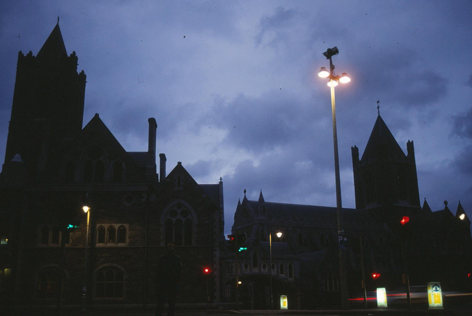 Christ Church Cathedral in Dublin, as seen at night from across a road with traffic indicators.